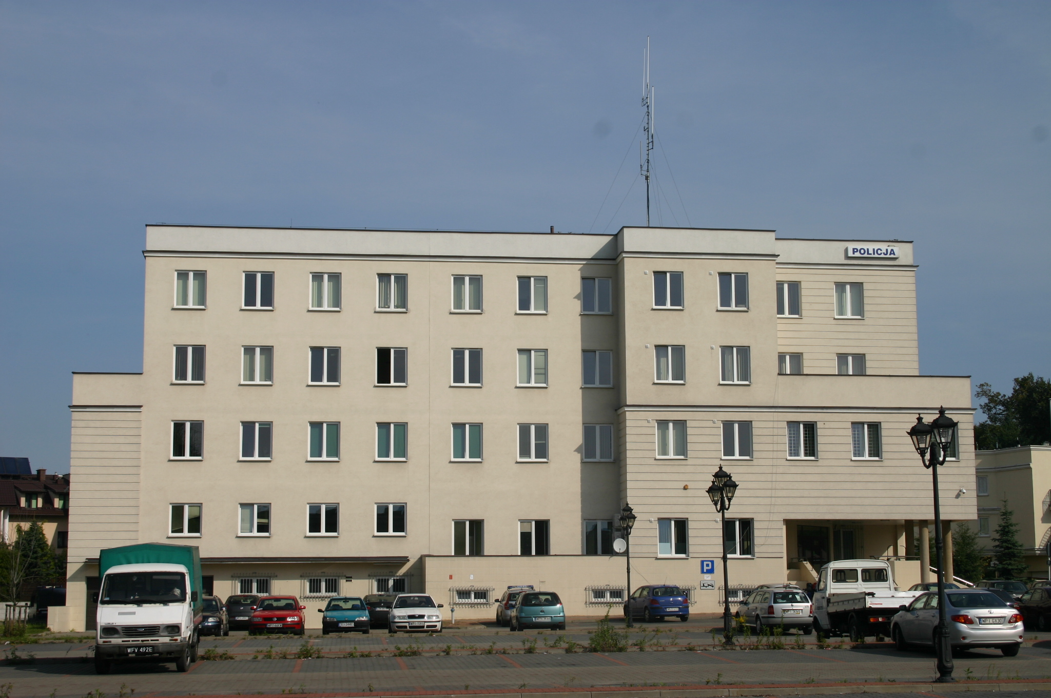 District police headquarters in Piaseczno, Poland